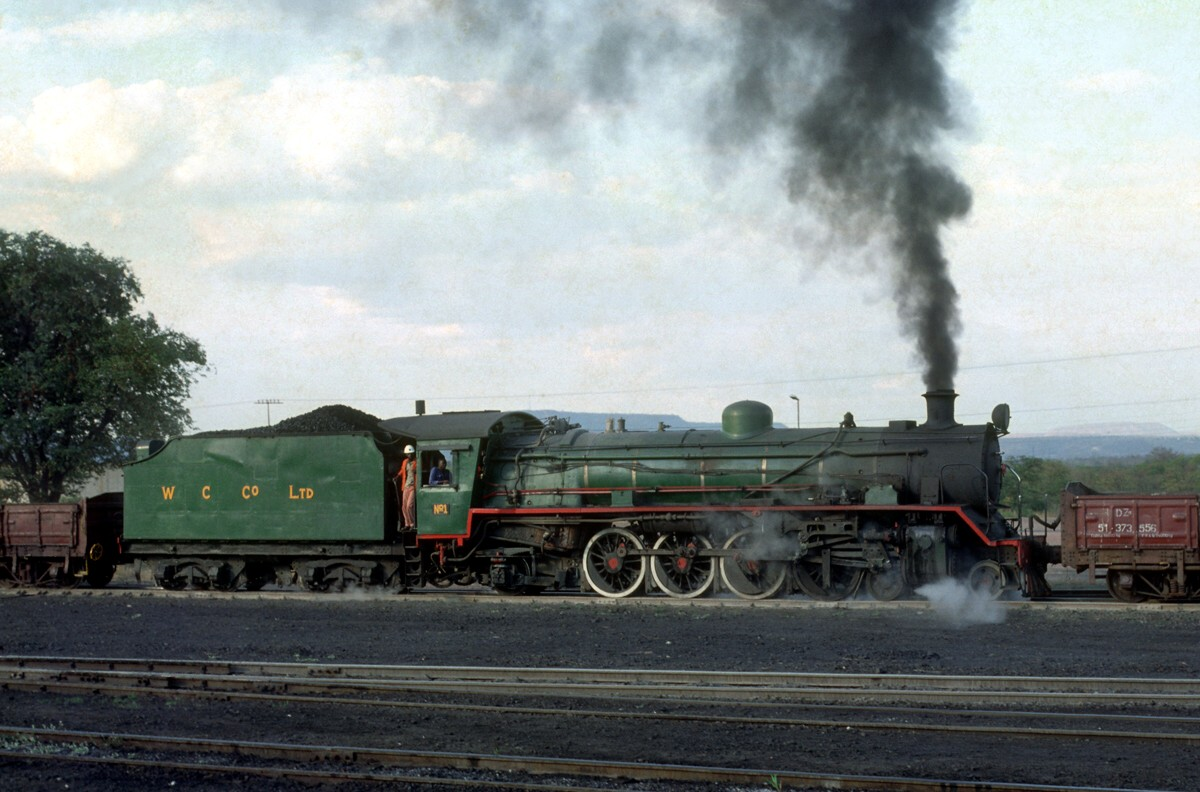 Wankie Coal Co. 19th Class no. 1 restarts a train from TJ exchange yard at No 2 Colliery sidings at Hwange, Zimbabwe